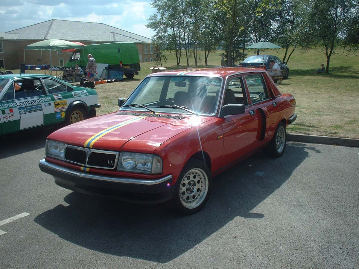 Front view of 1984 Lancia Trevi Volumex (VX) Bimotore prototype at 2005 Lancia Motor Club AGM: the Bimotore (Italian for "Twin-engine") is powered by two transversely engines — a standard front-engine, and an additional rear mid-engine — with Volumex superchargers, to create an experimental four-wheel drive.